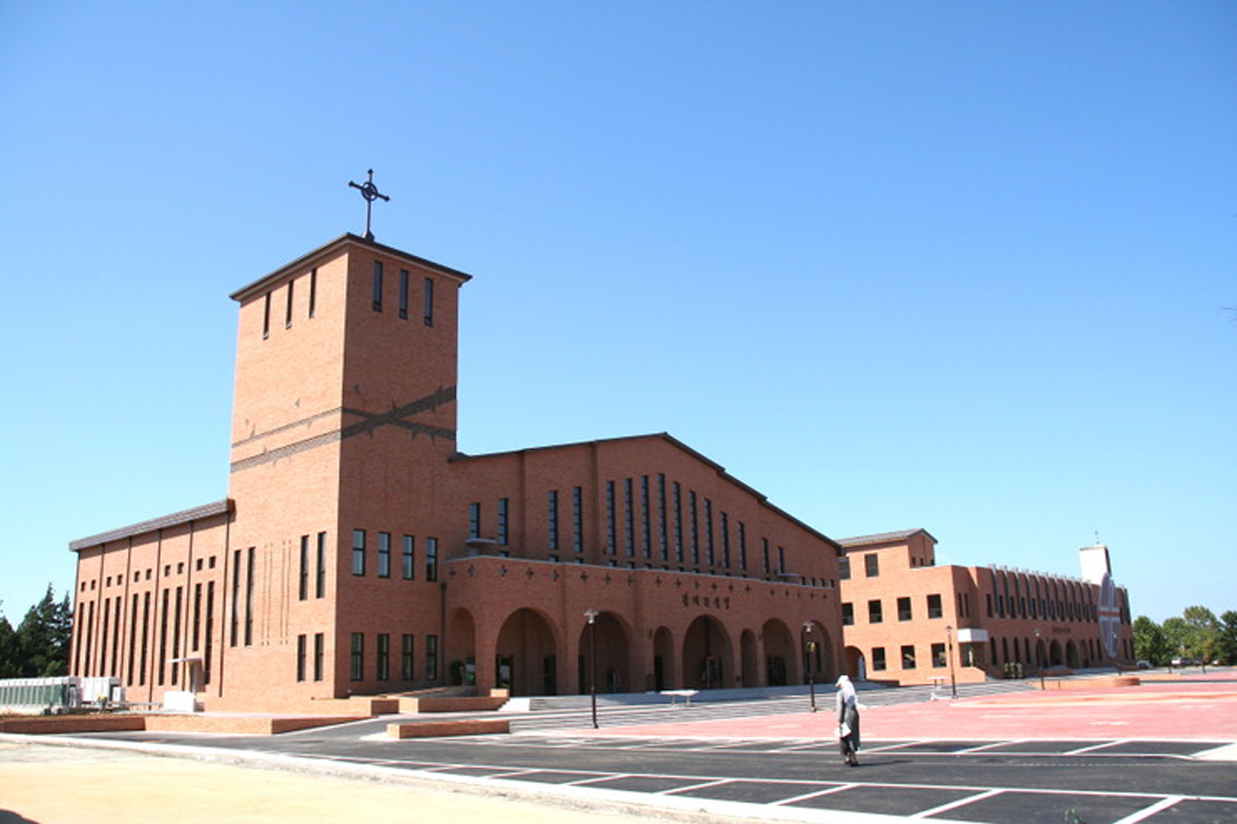 Republic of Korea Army Yeonmudae Catholic Church(Kim Taegon Catholic Church)